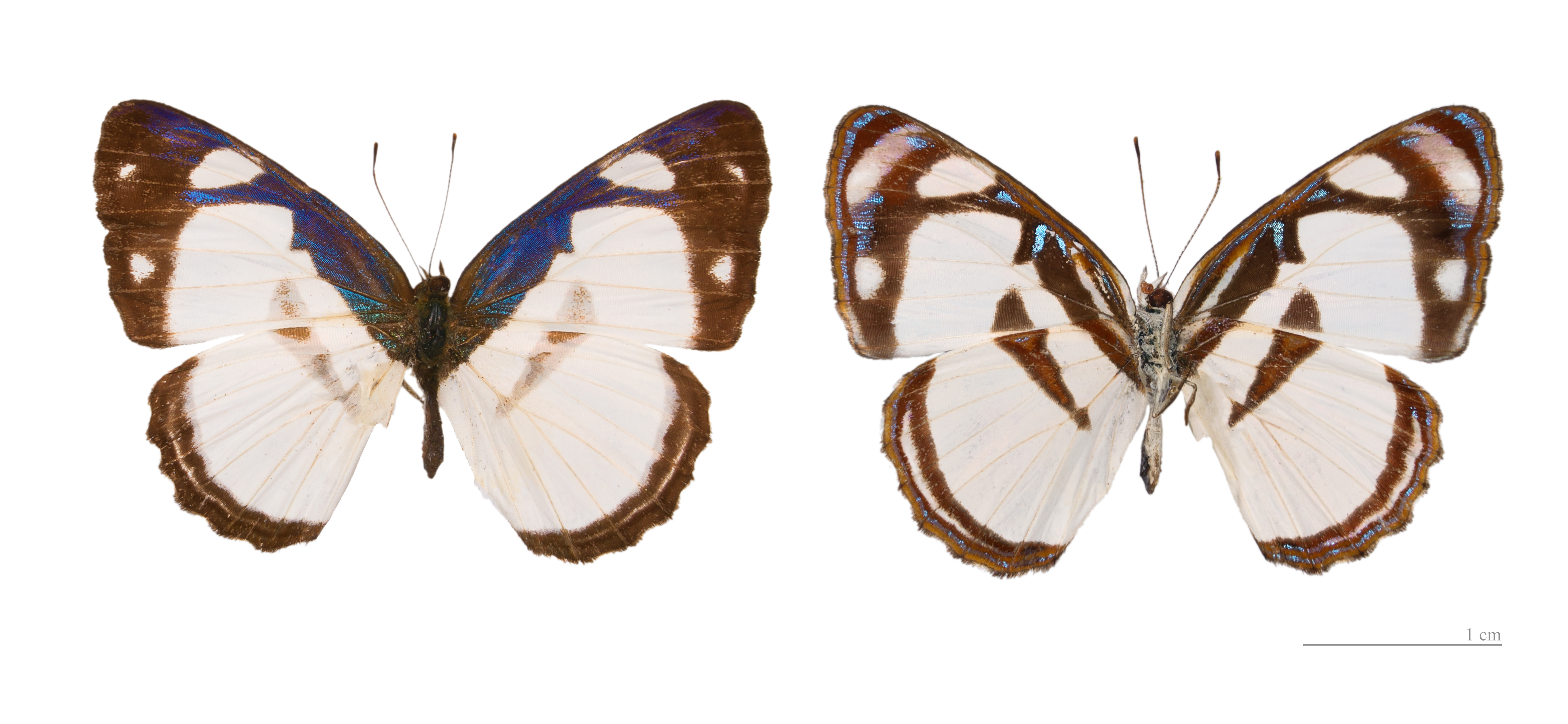 ♂ - Two views of same specimen Locality : Kaw road, Pk38, French Guiana.